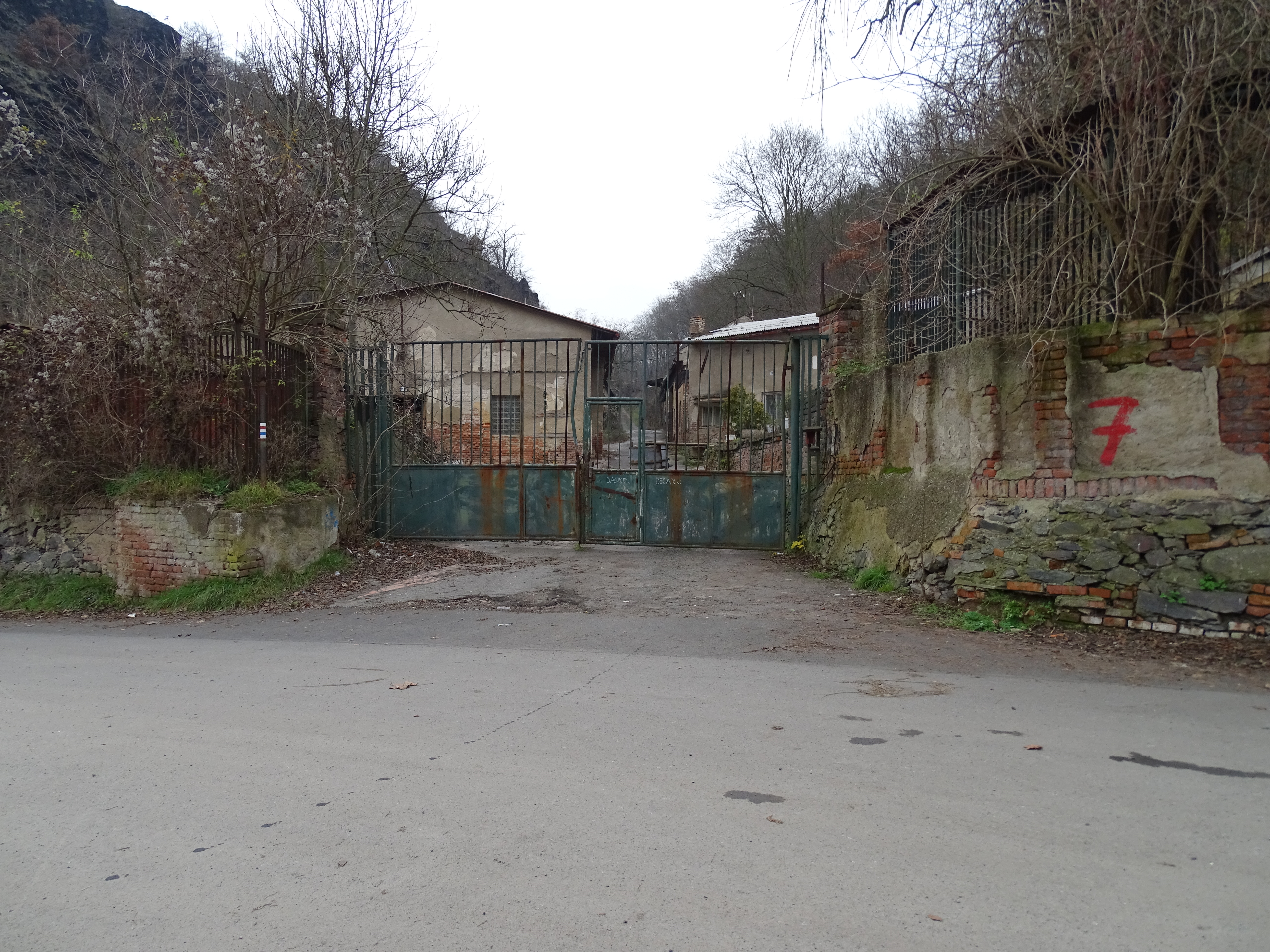 Prague-Bohnice, Czech Republic. V Zámcích, a former dynamite factory.